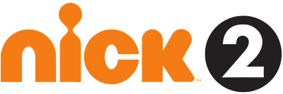 Logo for Nickelodeon (TV channel)'s "Nick 2" alternate feed.